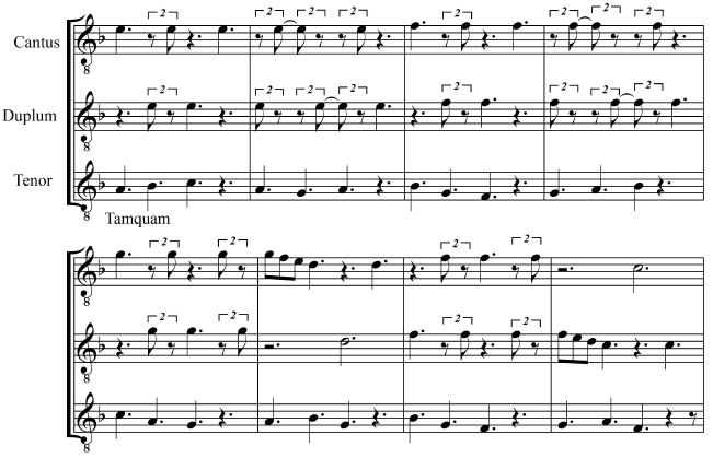 hoquetus transcription from the Ms. I-Fl Plut. 29.1, f.147v (fragment)